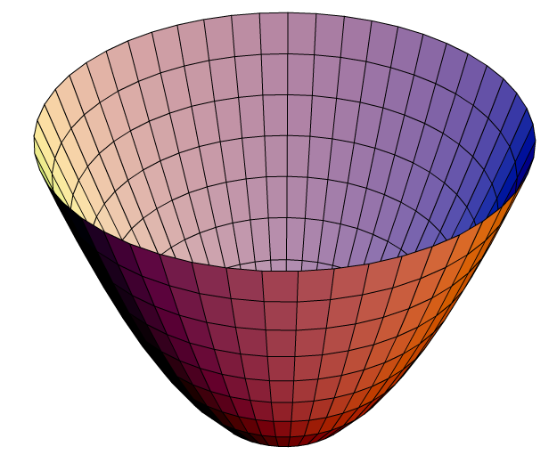 A 3D rendering of the paraboloid given parametrically by: x = u cos ⁡ ( v ) {\displaystyle x={\sqrt {u \cos(v)\,} y = u sin ⁡ ( v ) {\displaystyle y={\sqrt {u \sin(v)\,} z = u {\displaystyle z=u\,}